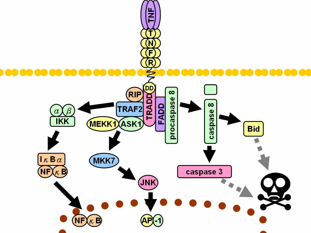 Simple representation of TNFR signaling pathways. Dashed lines represent multiple steps.